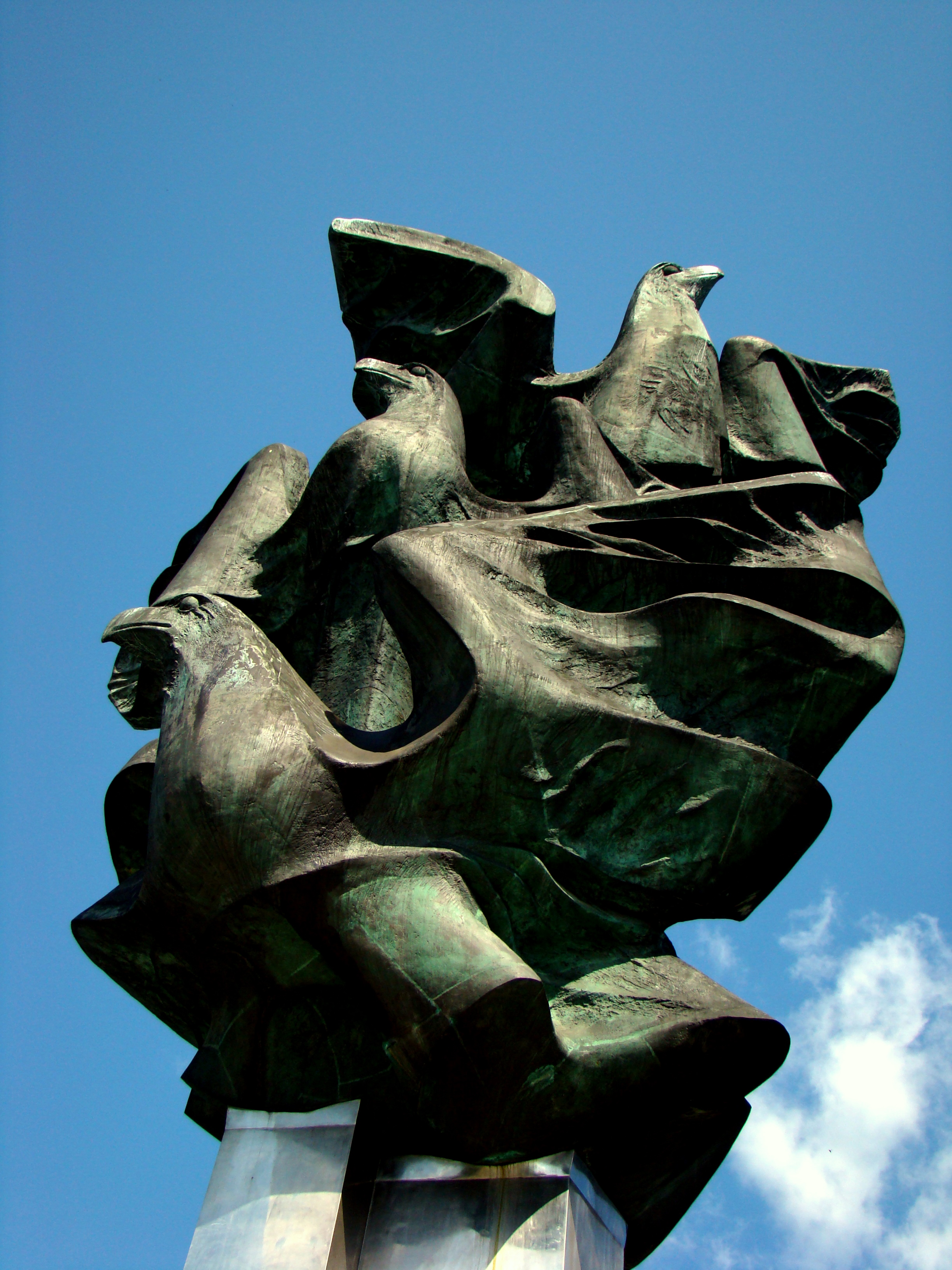 Monument to Polish Endeavor, Szczecin, Poland